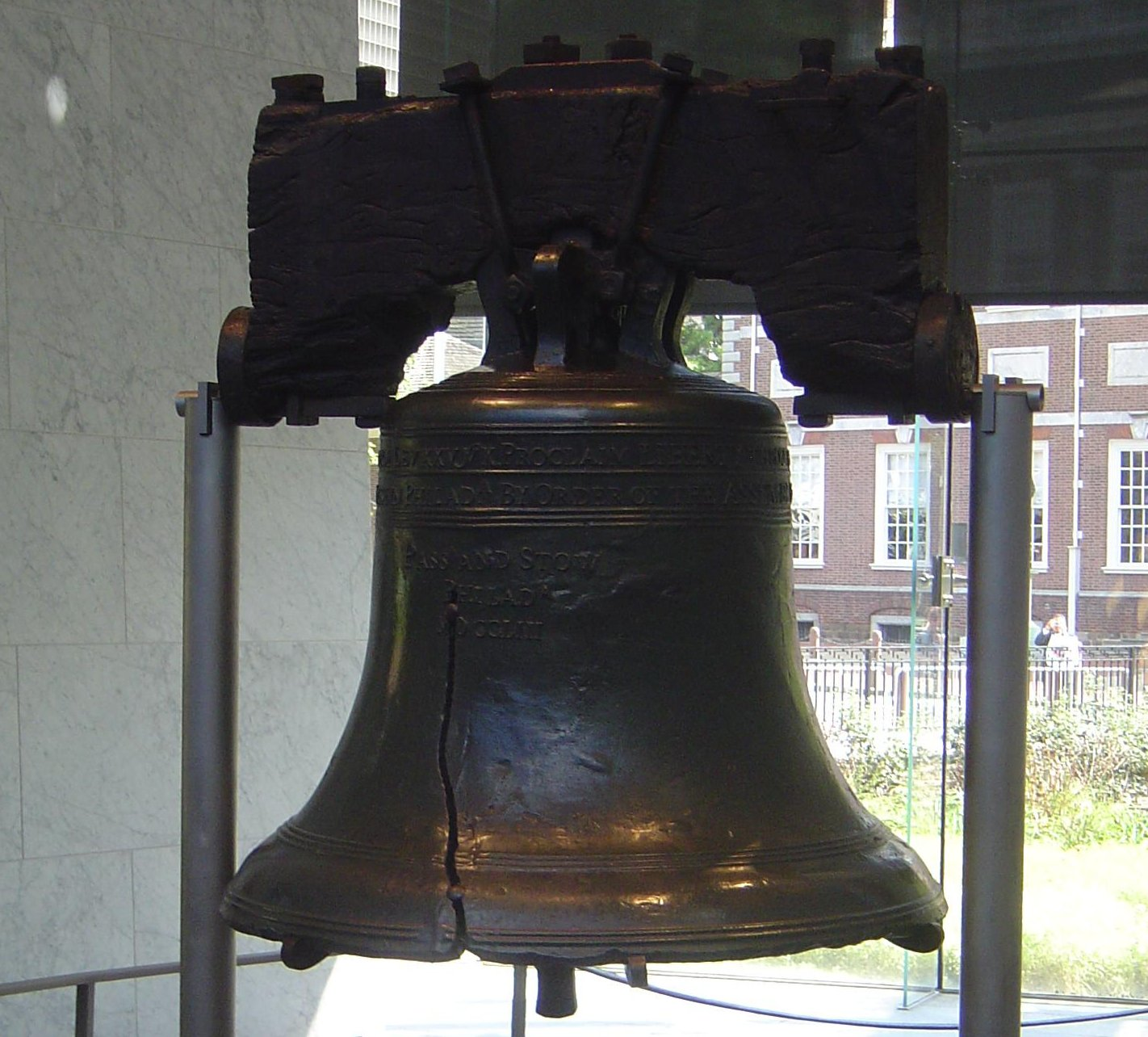 The Liberty Bell in Philadelphia, 2006.